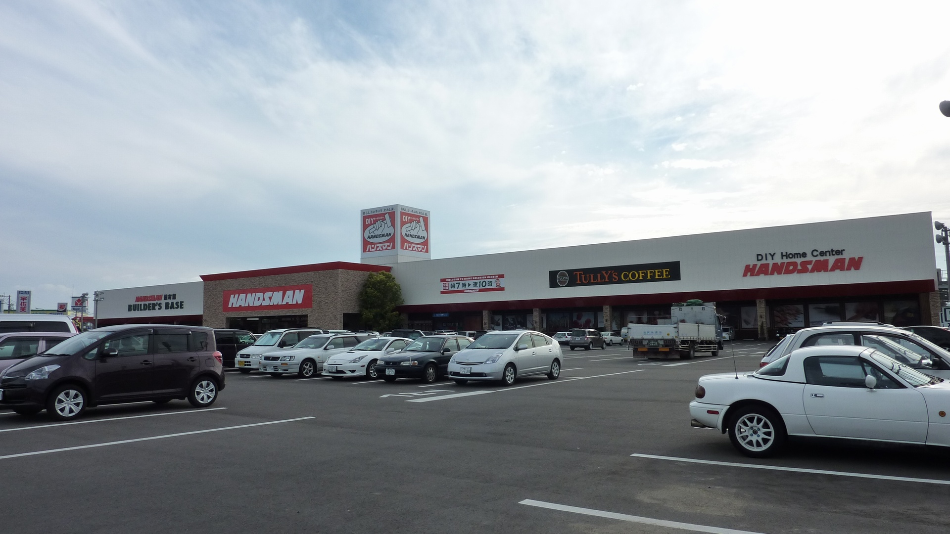 The Handsman Yosio Store - Home Center (Miyakonojo City, Miyazaki Prefecture, Japan)